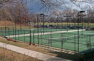 Tennis courts at Poly Prep Country Day School in Brooklyn, New York, United States.